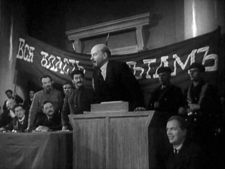 Lenin in October movie, 1937 final